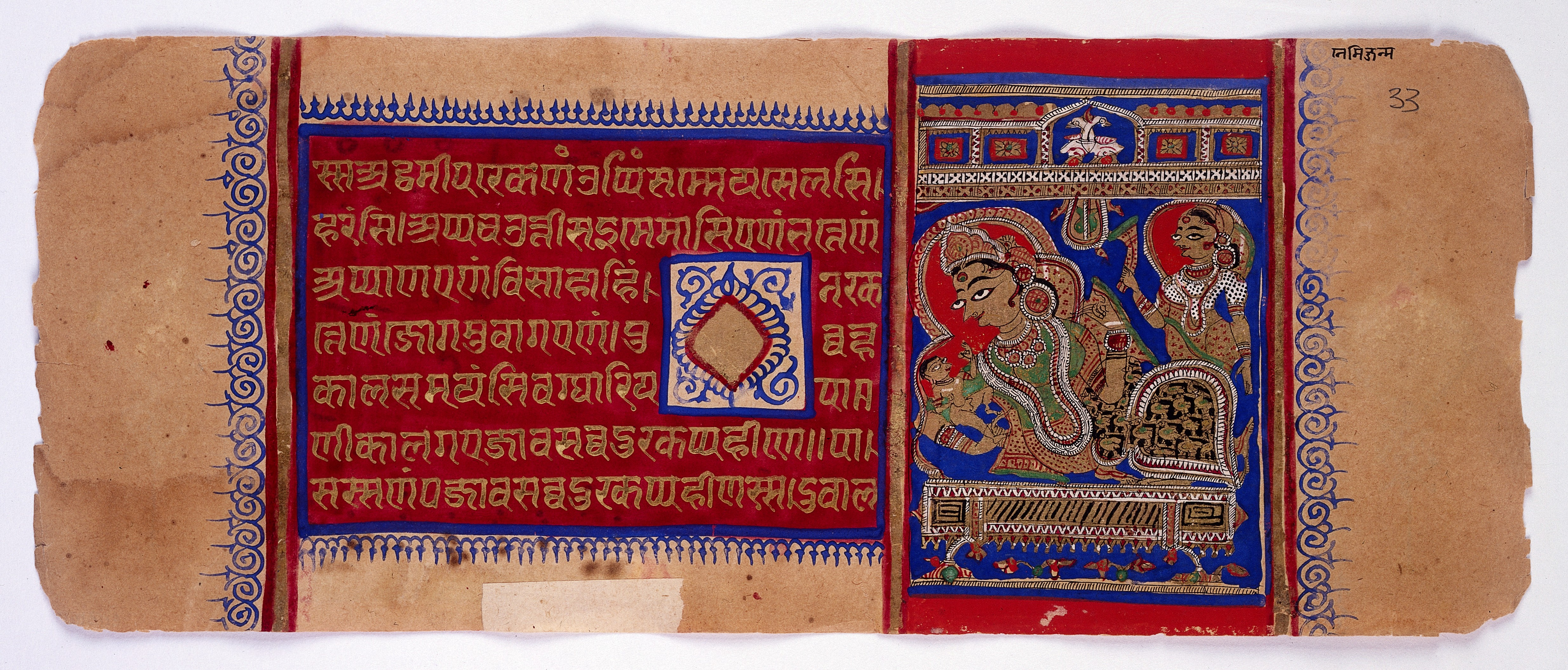 The birth of Aristanemi, one of the founding teachers of the Jaina faith, from Kalpasutra Asian Collection Keywords: ms indic gamma 453